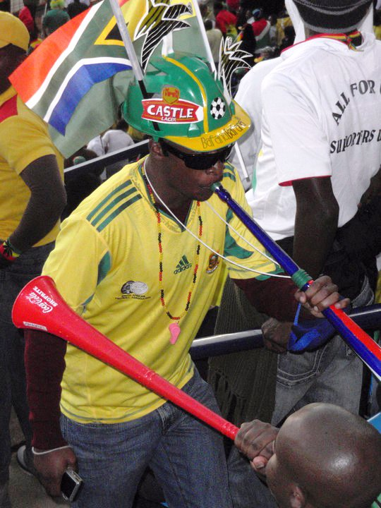 A South African fan plays his vuvuzela during the Ghana vs. Serbia World Cup soccer match at Loftus Versfeld Stadium in Tshwane, Pretoria, South Africa, on June 13, 2010. [State Department photo/ Public Domain]